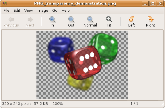 Eye of GNOME 2.22.3